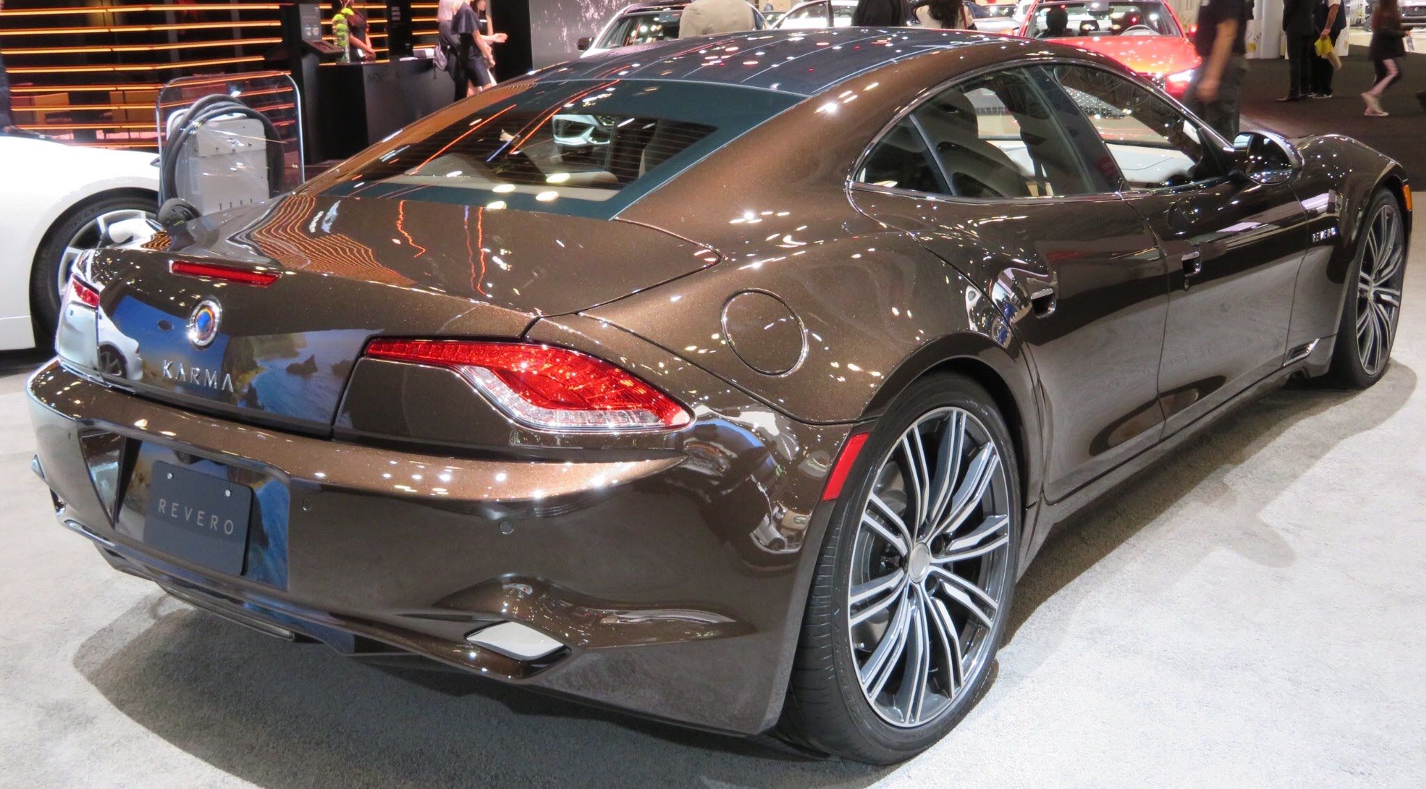 In New York International Auto Show, at Manhattan, New York